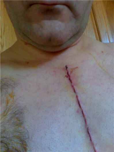 coronary bypass scar three days after surgery